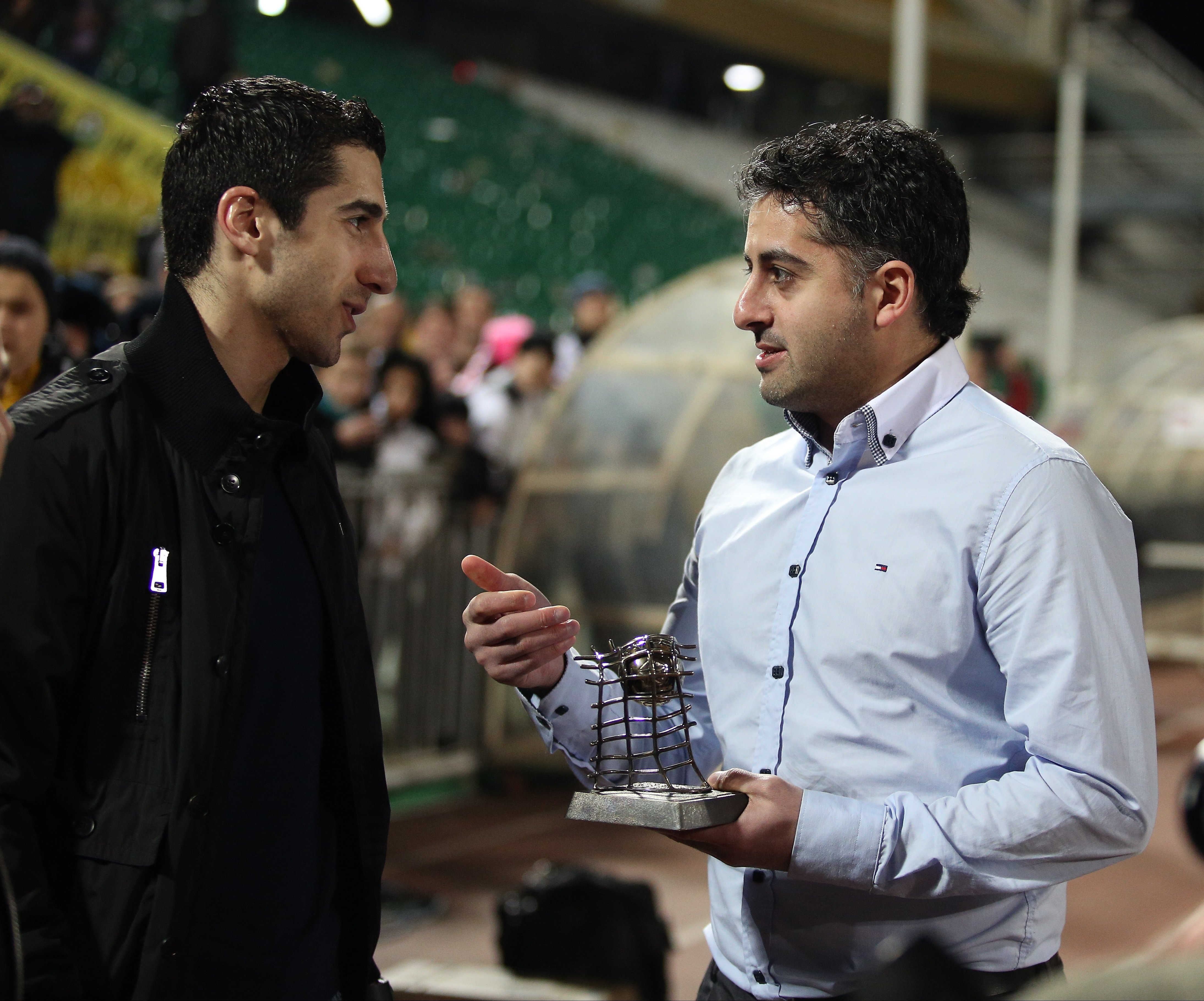 Artur Petrosyan hands over the Sport Express' CIS Player of the Year award to Henrikh Mkhitaryan.